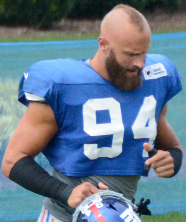 New York Giants training camp